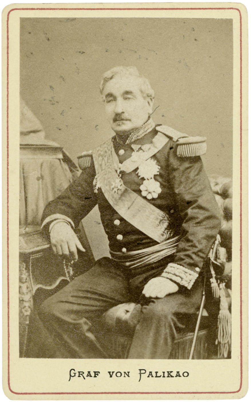 Charles Cousin-Montauban, Graf von Palikao. Albumen carte-de-visite, from an album of portraits of high ranking German and French nobelmen and generals. 1870s/80s. 10,2 x 6,5 cm.